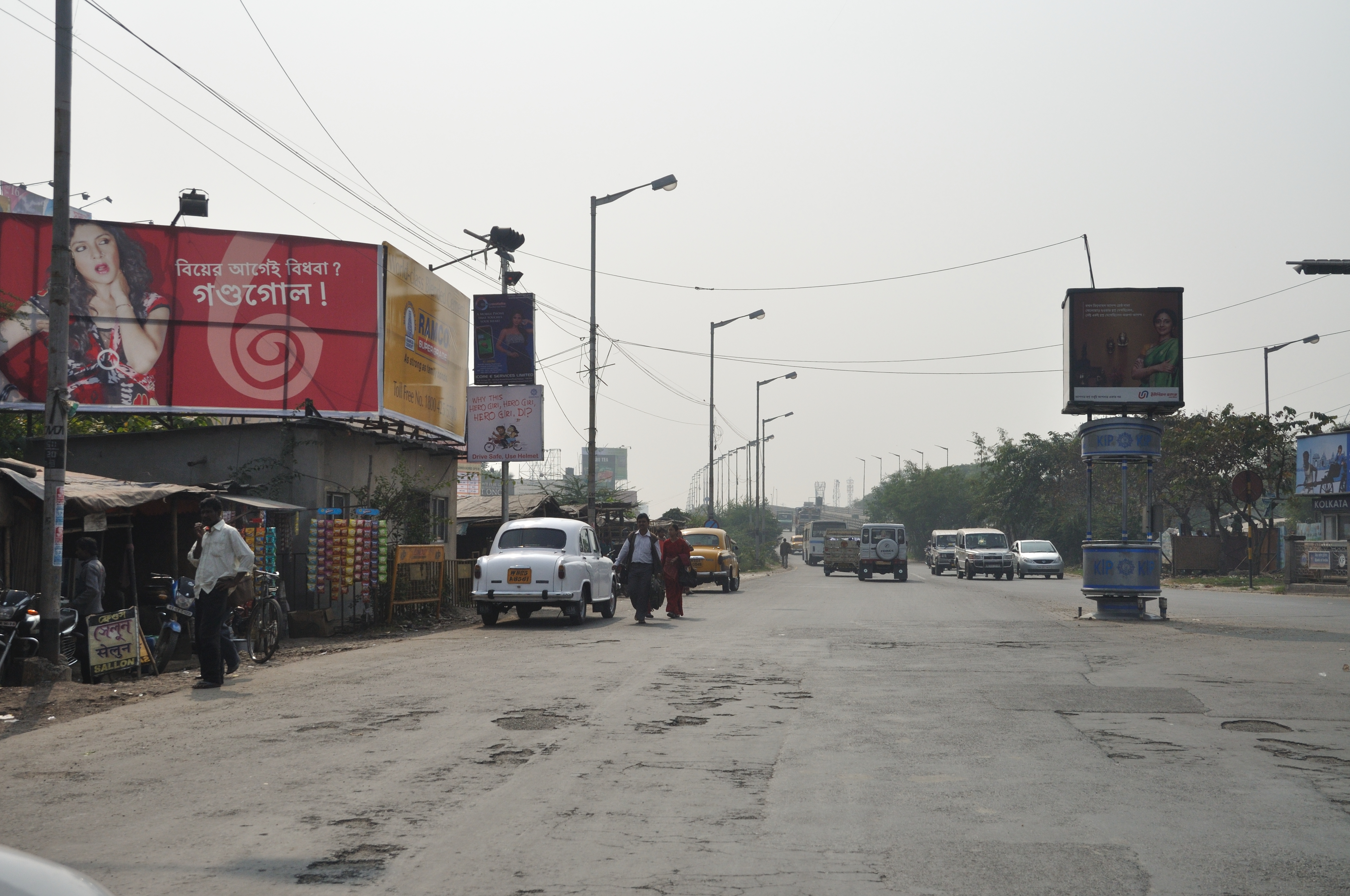 Photographed at Kolkata.